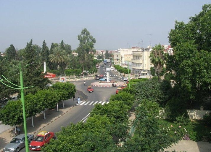 القصر الكبير